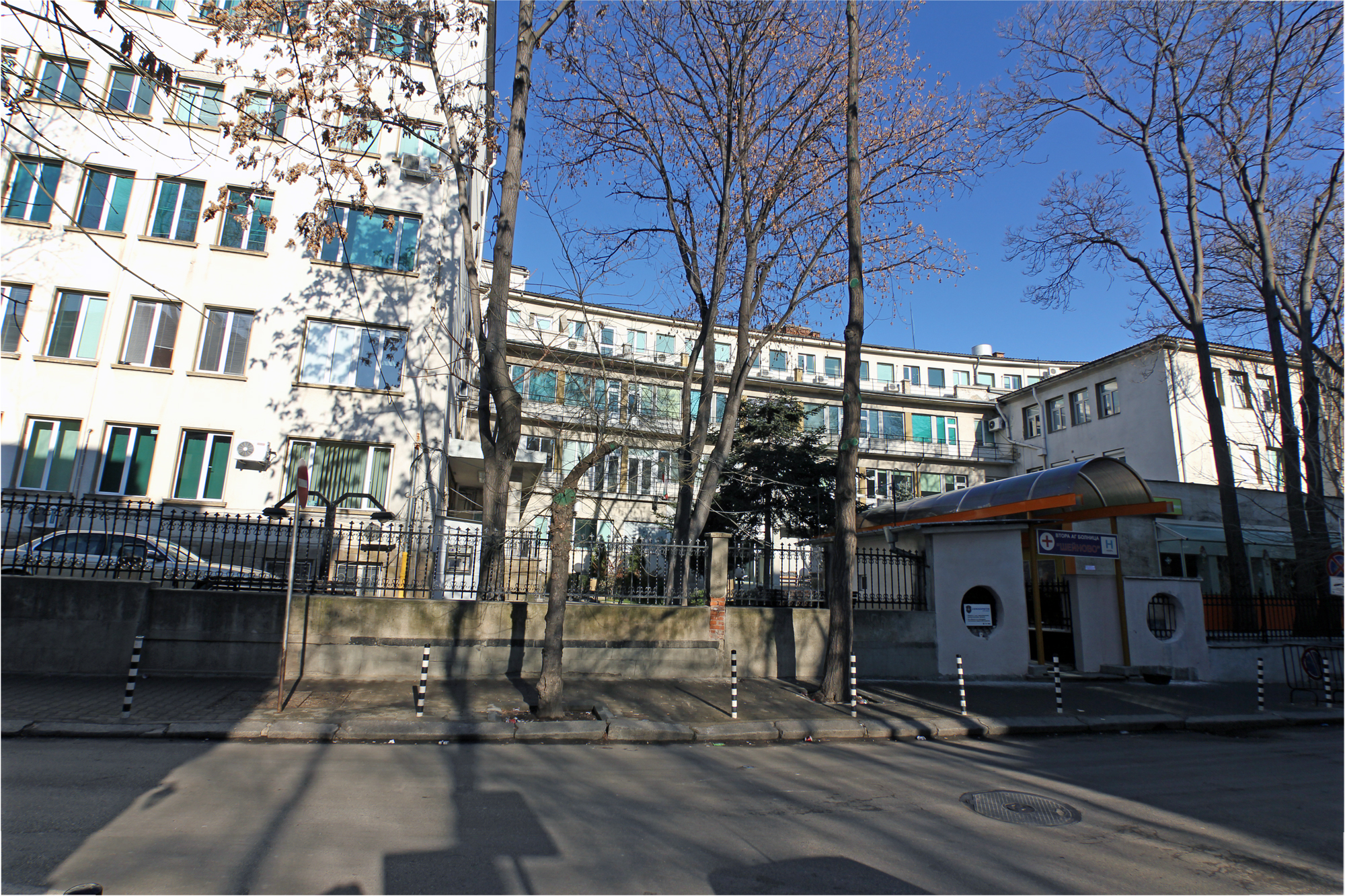 2nd Obstetrics and Gynecology Hospital in Sofia entrance.jpg